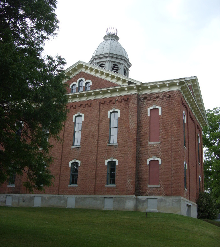 Naples Memorial Town Hall, Naples, Upstate New York.